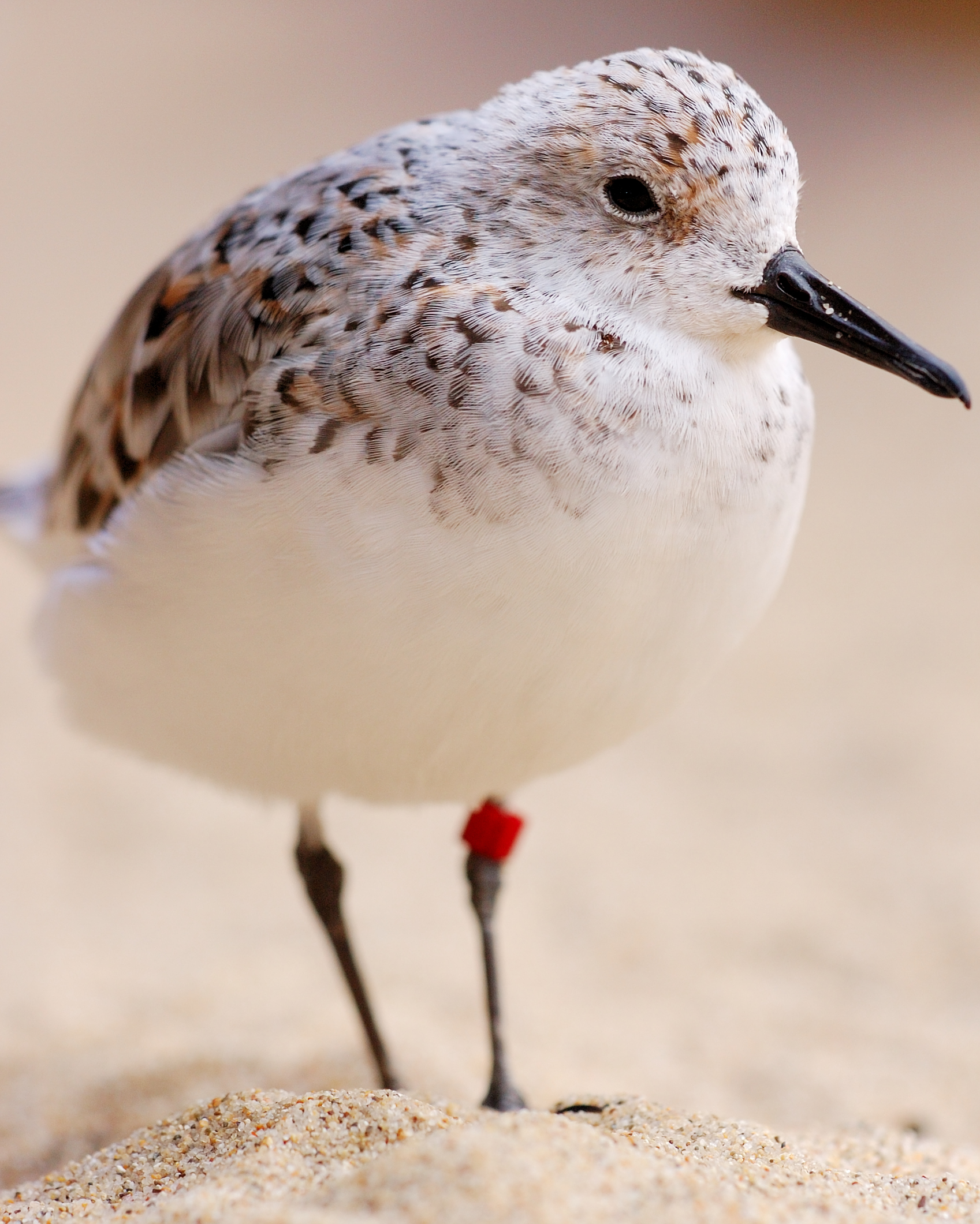 A picture of a sanderling taken at the Monterey Bay Aquarium.